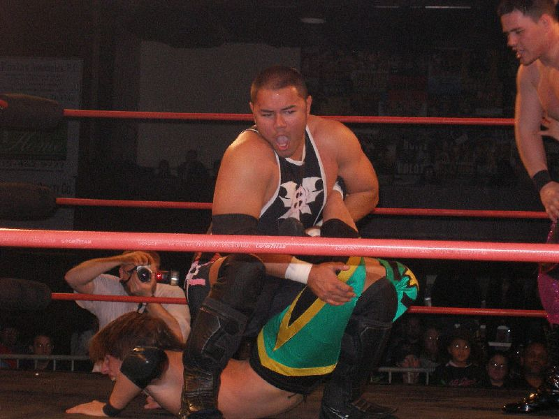 Professional wrestler Scott Lost with a sharpshooter on his opponent, while his tag team partner Chris Bosh watching on, at a Chikara's show in Philadelphia, PA in February 18, 2007.